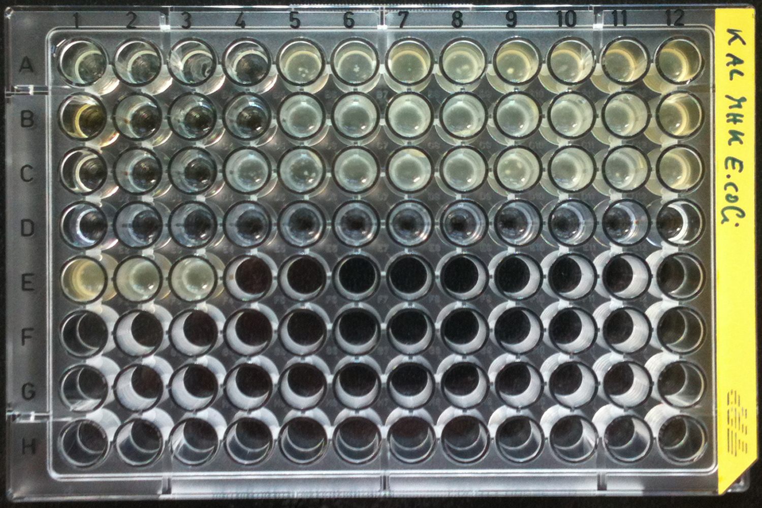 Determination of the minimum inhibitory concentration (MIC) in a 96-wells microtiter plate. Rows A to C are filled with solutions of antimicrobial agents in different concentrations, a bacterial suspension (Escherichia coli) was added, row D is the negative control and row E is the positive controll (columns 1–3). The turbidity (e. g. A5–A12) shows no inhibition of the bacteria, because the concentration of the inhibitory agent was too low.